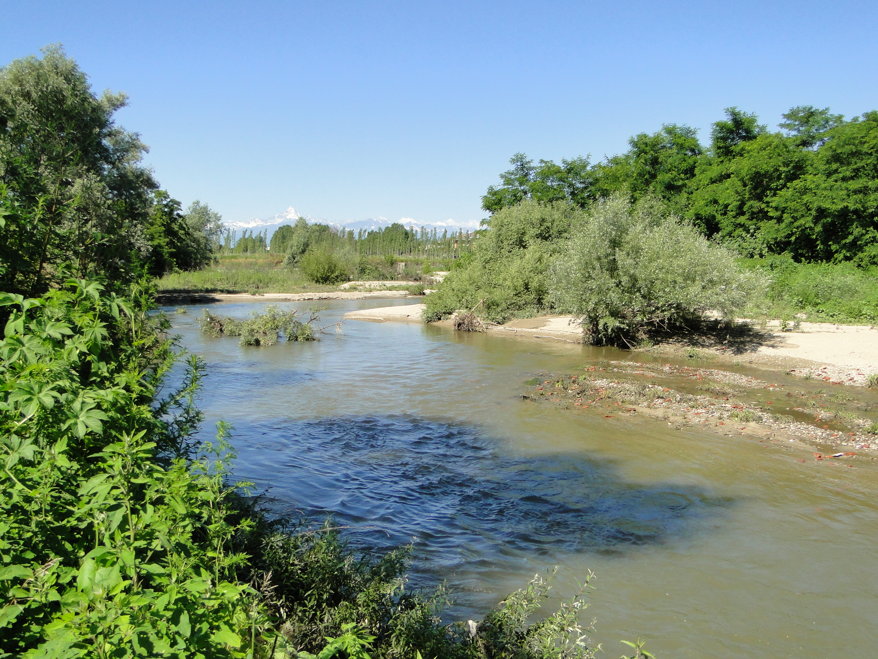 The river Chisola at Vinovo